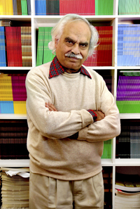 Rasheed Araeen in front of "Third Text" archive